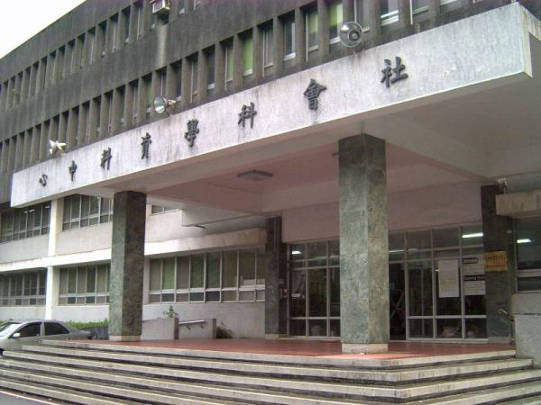 Social Science Archive, National Chnegchi University